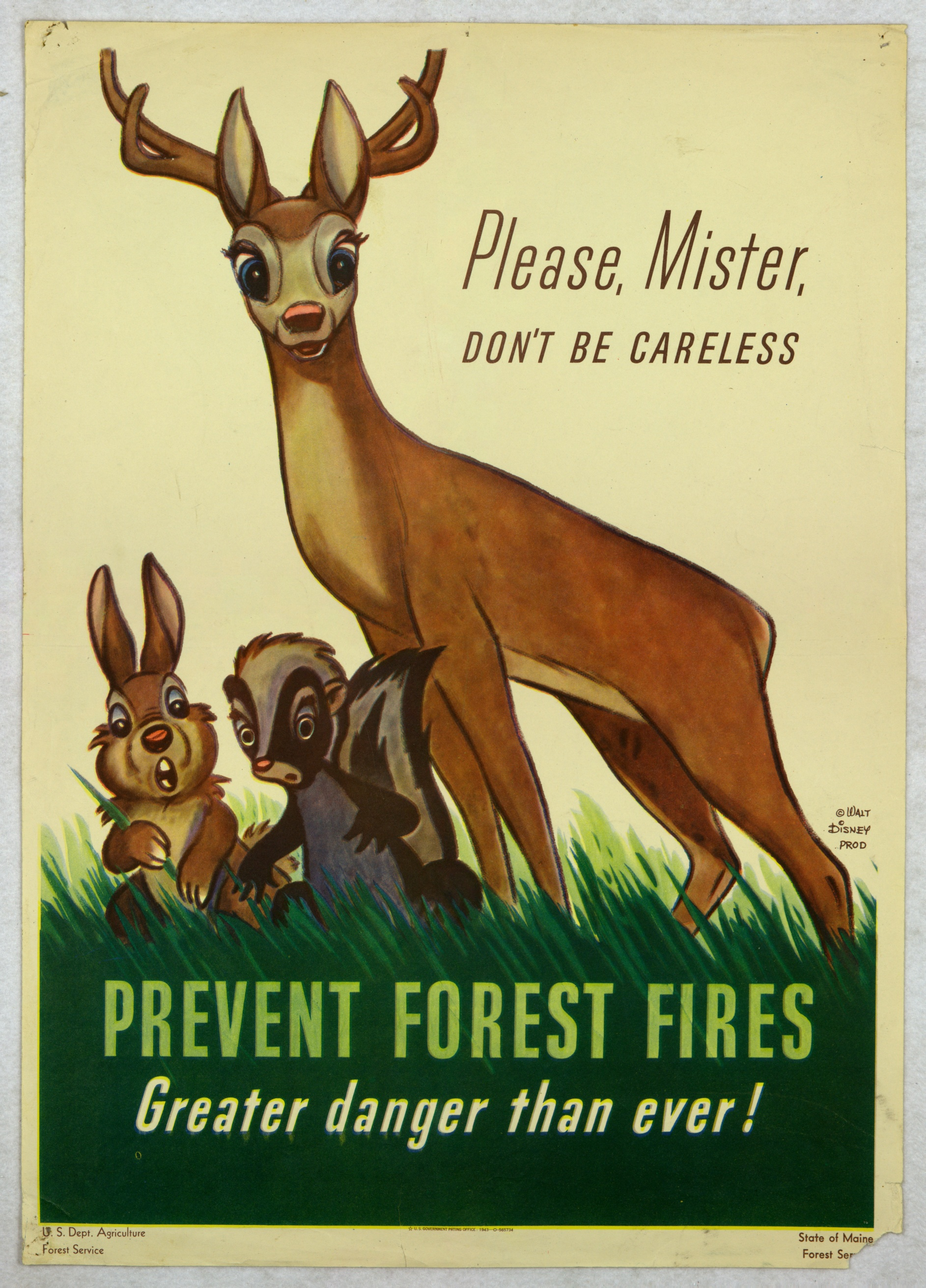 1943; When Walt Disney's Bambi came out in 1942, Disney gave the USDA/National Forest Service rights to use Bambi's image in the their Wild Fire Prevention Program for one year. Poster of Walt Disney's Bambi with a rabbit and a skunk standing in grass. Poster reads "Please, Mister, Don't Be Careless. Prevent forest fires. Greater danger than ever!" This poster is held in the National Agricultural Library in Beltsville, MD.